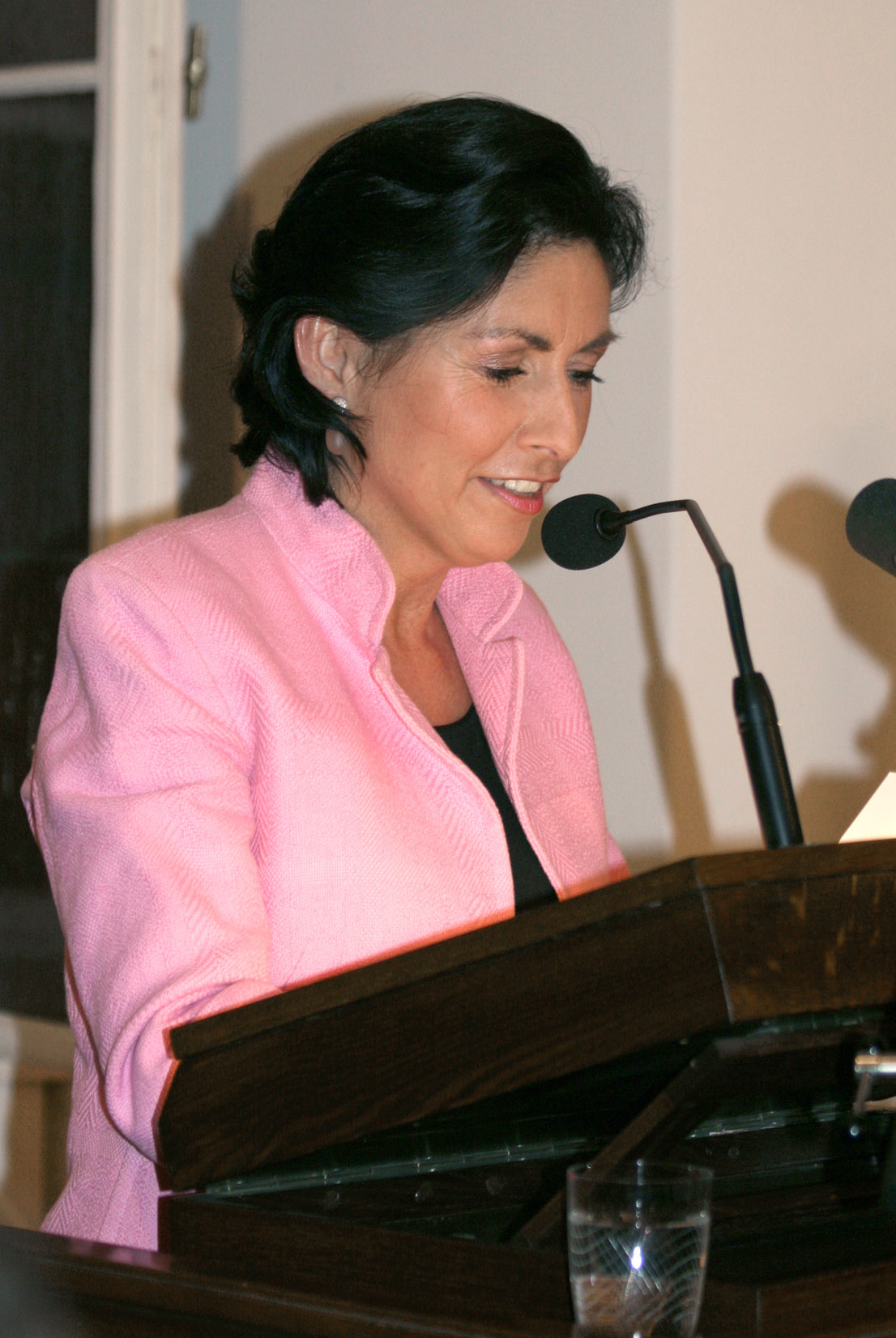 Danielle Spera during her laudation for Arik Brauer the opening of the exhibition Arik Brauer und die Bibel (Arik Brauer and the Bible) on the occasion of his 80th birthday (Vienna, Austria).